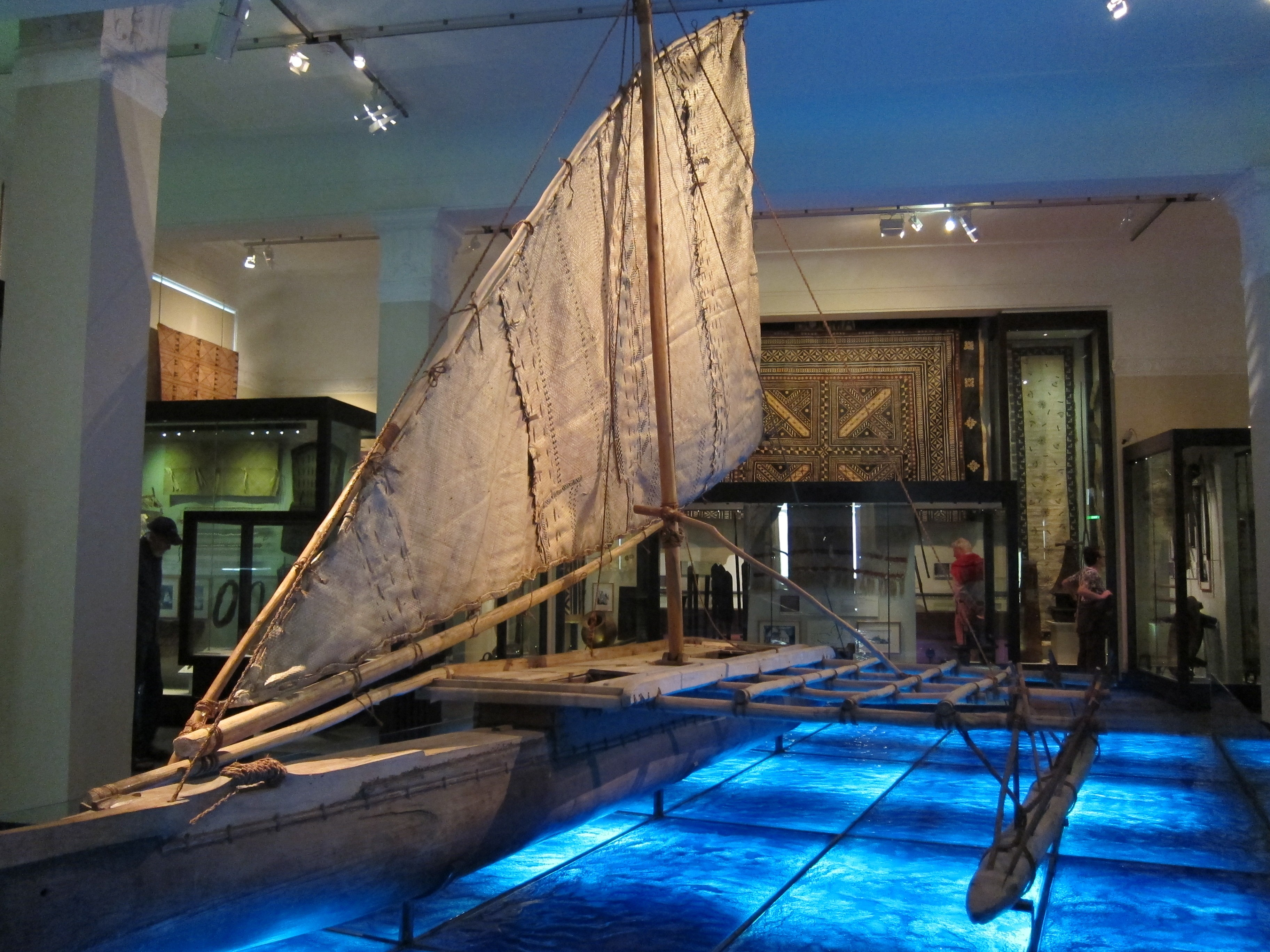 Camakau, Sailing Canoe - Fiji